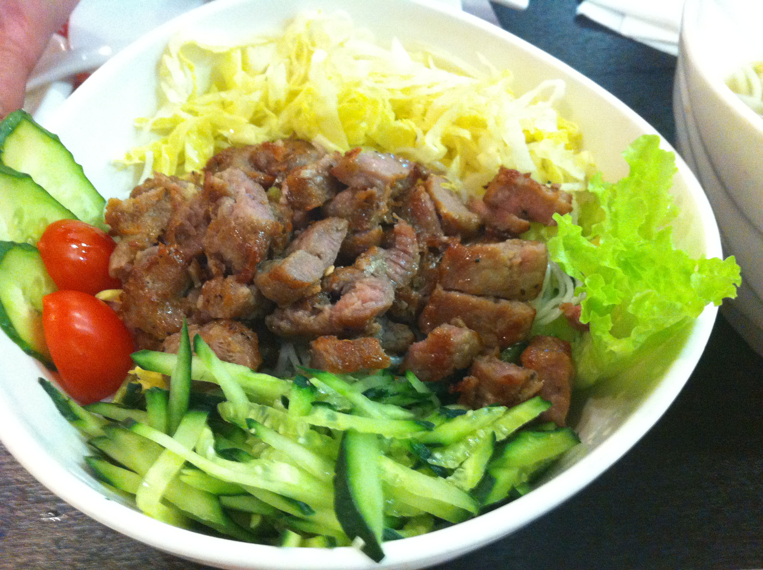 A cold rice vermicelli with roast beef in a Vietnamese restaurant in Xizhimen, Beijing.